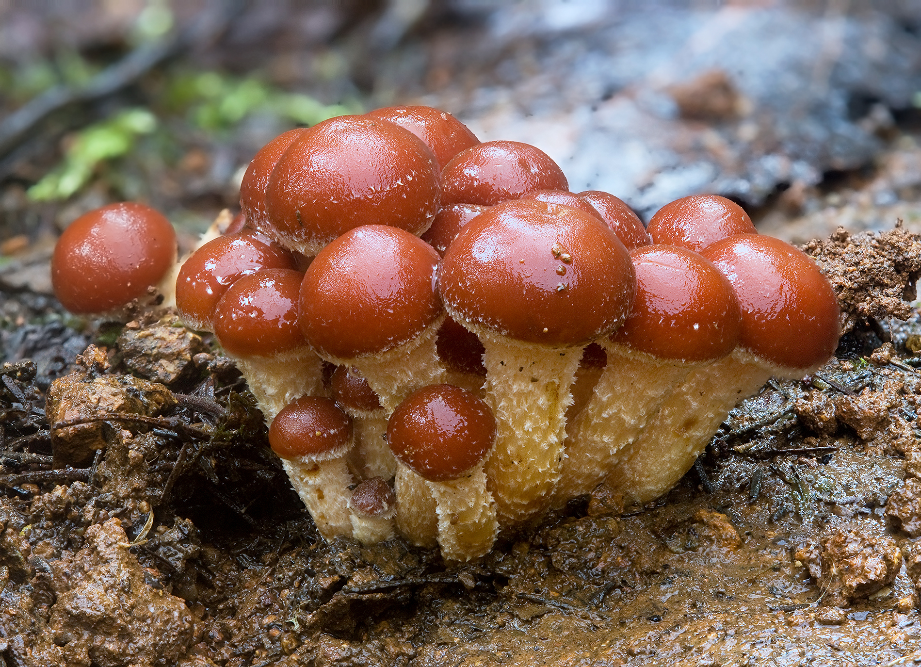 Hypholoma sp, Myrtle Forest, Collinsvale, Tasmania, Australia